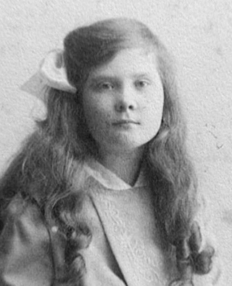 Princess Natalia Paley